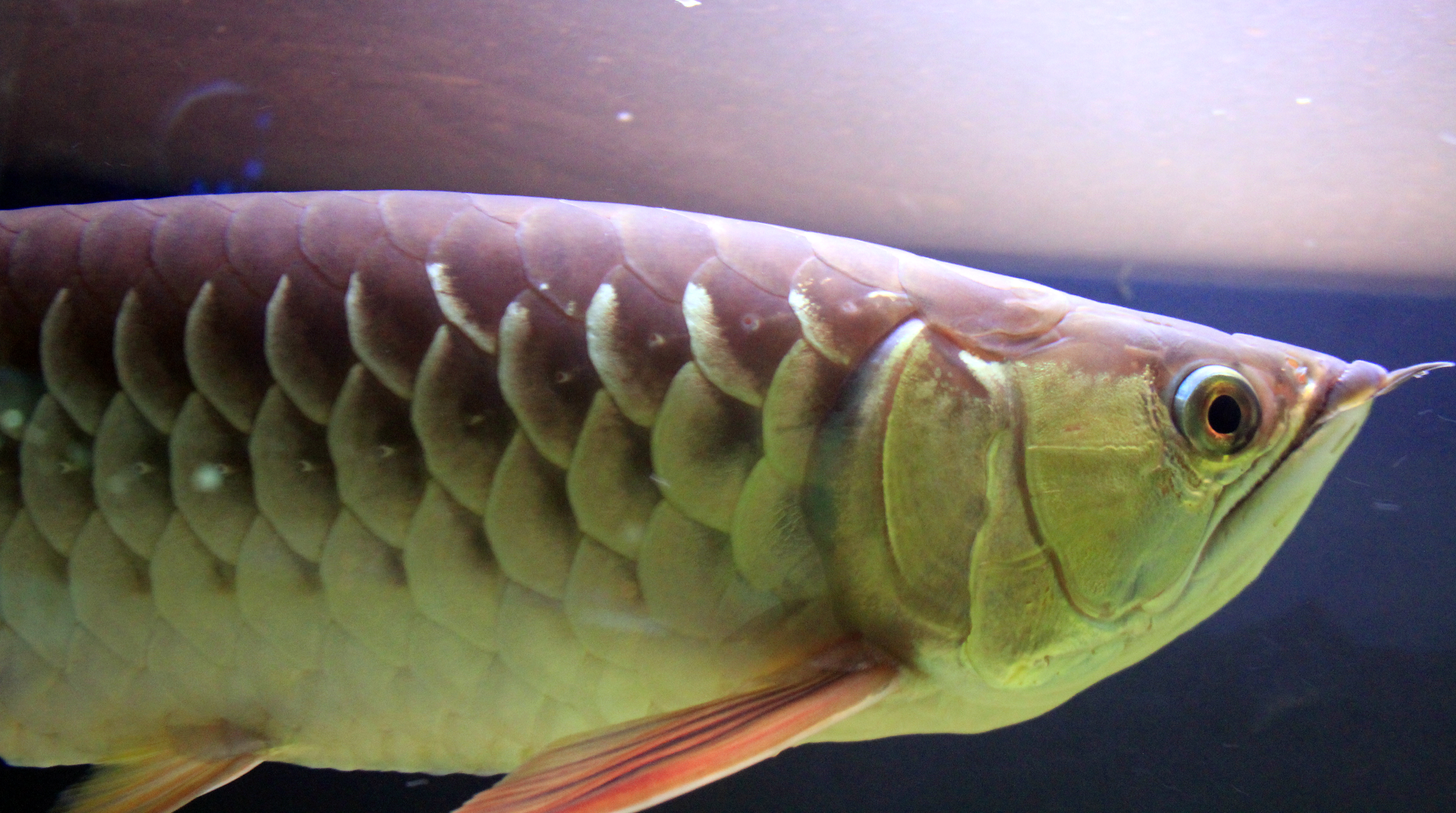 Fish Asian arowana Scleropages formosus in Prague sea aquarium, Czech Republic